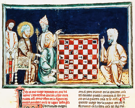 A picture of medieval Muslims ("Moors") in al-Andalus playing chess. From the Book of Games by King Alfonso X.